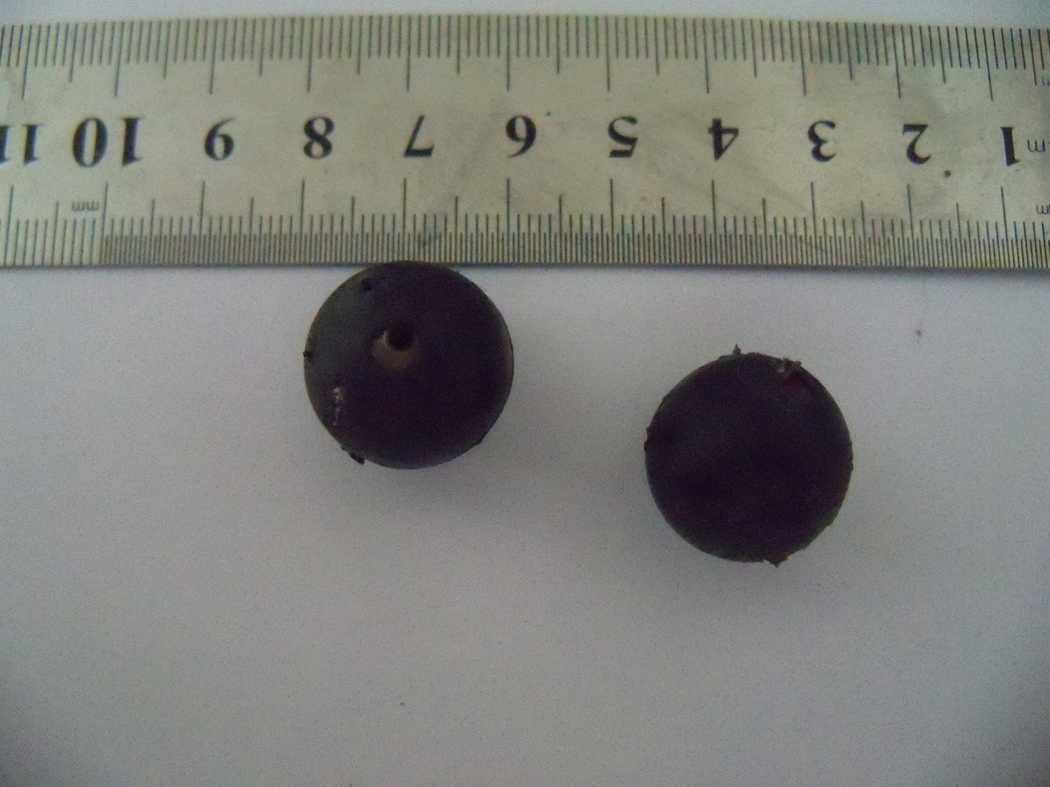 Rubber coated bullets used against protesters against the separation wall in Ni'lin, August 2013